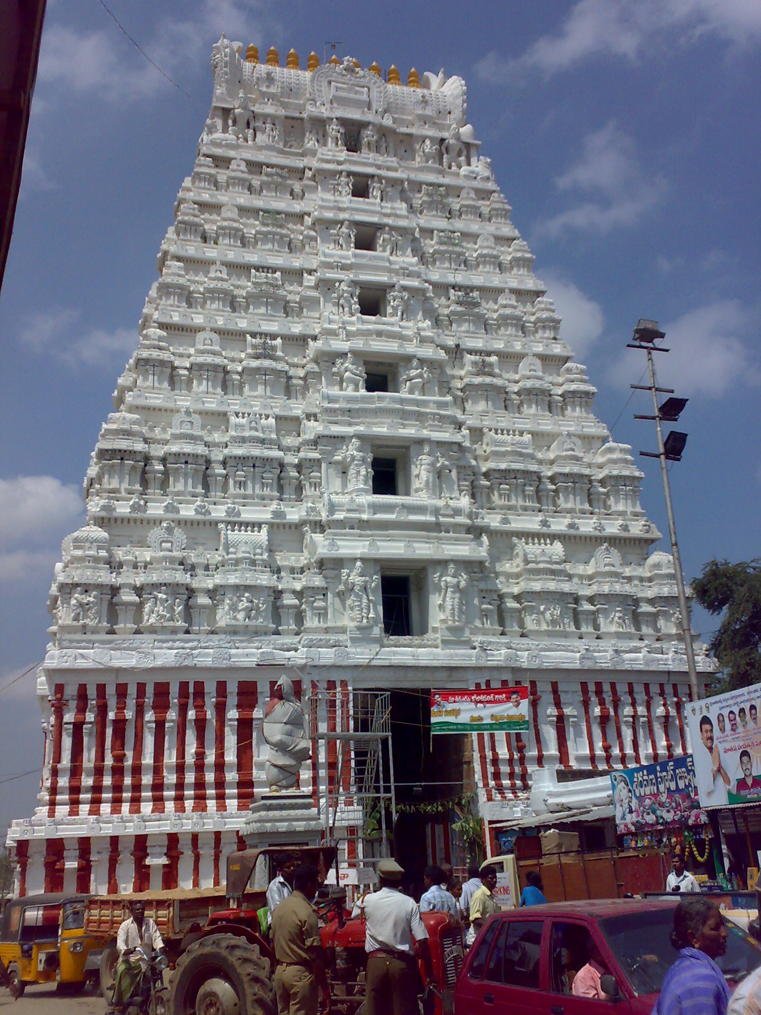 This is the picture of Srikalahasti Lord shiva Temple in the Indian state of Andhra pradesh.